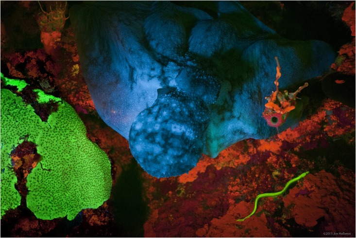 Biofluorescence photographed off Little Cayman Island. Note the fish (lower right; Chlopsidae).